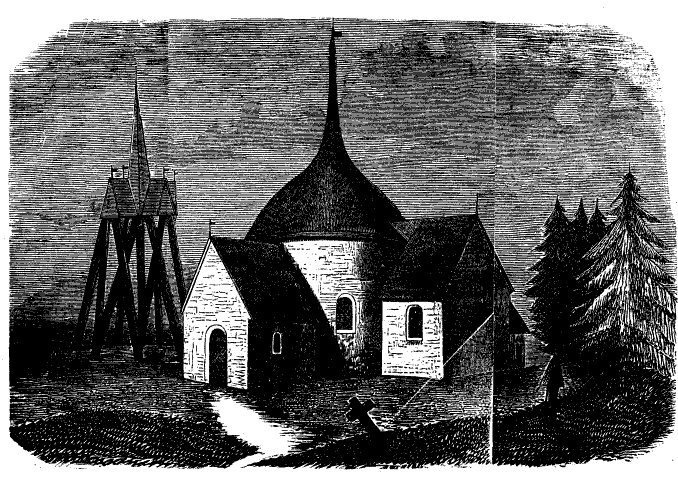 Voxtorp church in Småland (Kalmar län), Sweden.